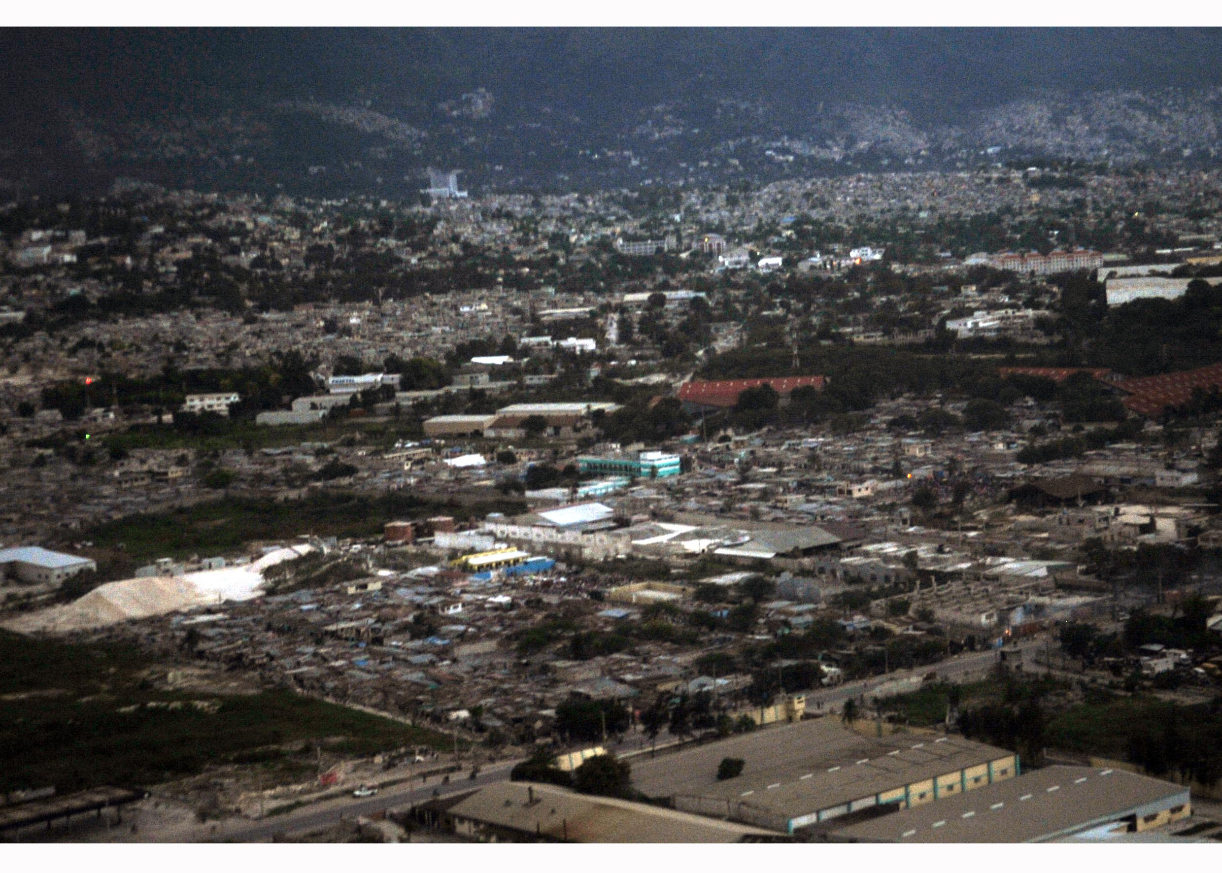 Aerial view of Port-au-Prince, in the aftermath of the 2010 Haiti Earthquake.